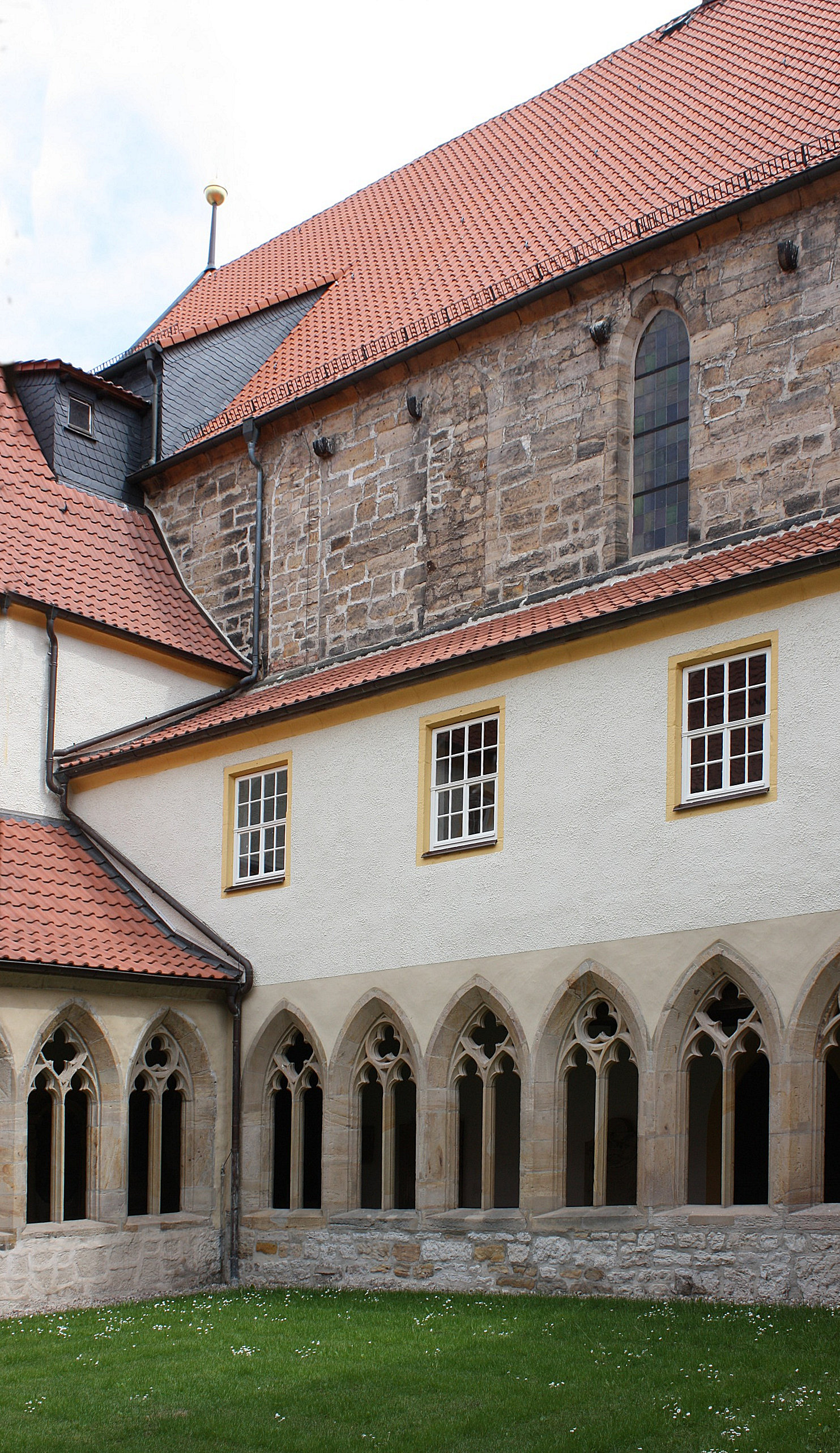 Gotha, the Augustinerkirche, the cloister